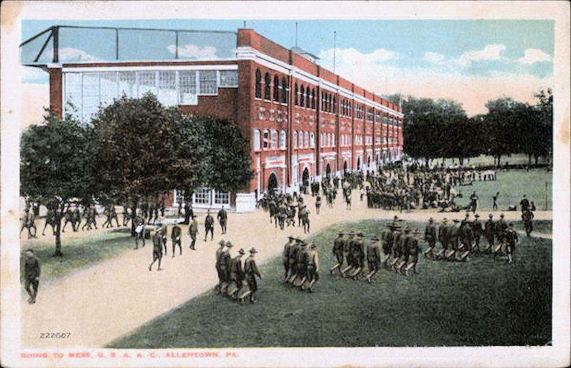 Postcard of Camp Crane, Allentown Pennsylvania. Showing Allentown Fairgrounds Grandstand and landscape